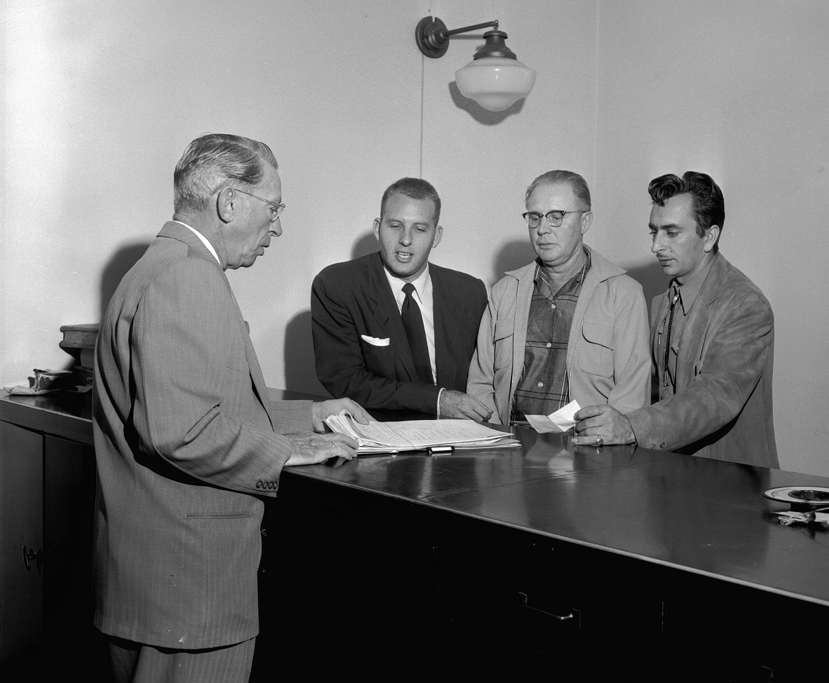 There are no known copyright restrictions on this image. All future uses of this photo should include the courtesy line, "Photo courtesy Orange County Archives."